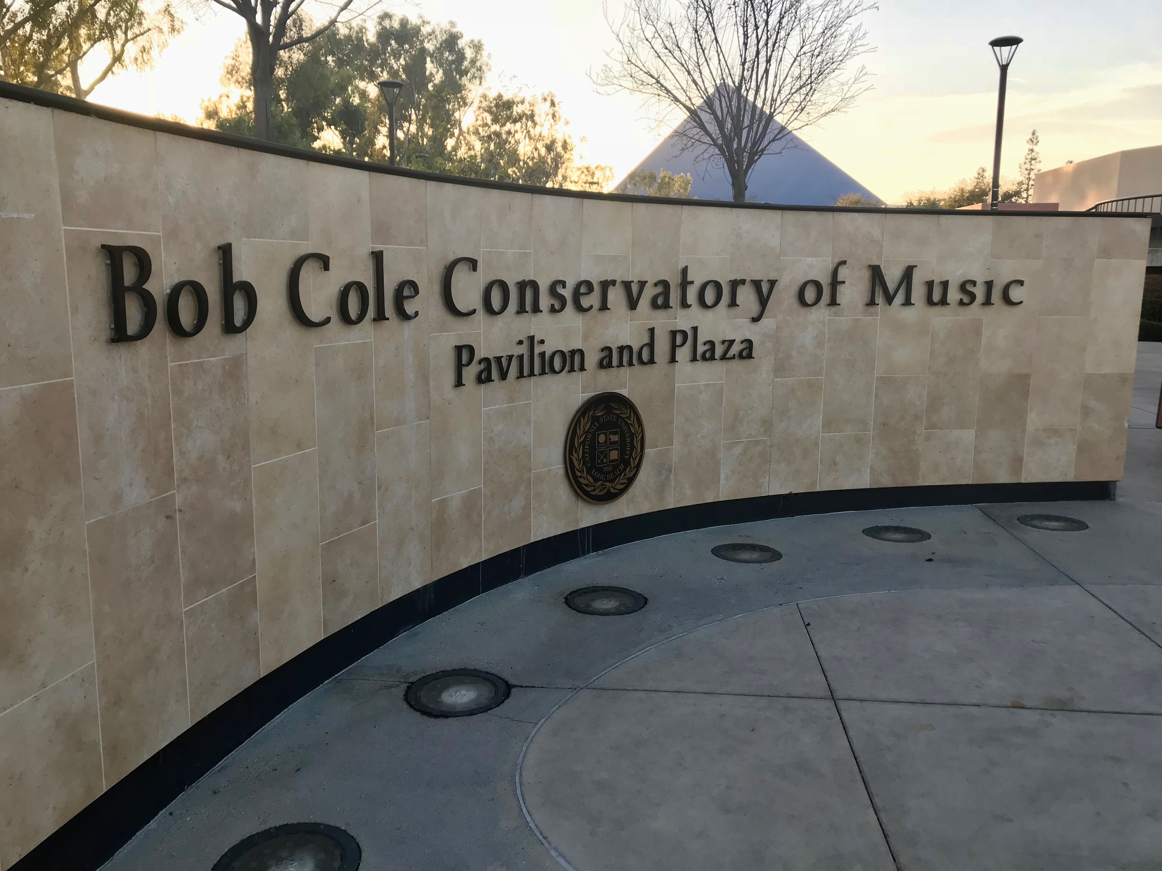 Entrance sign of BCCM